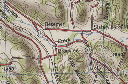 1948 topographic section of former New York State Route 323